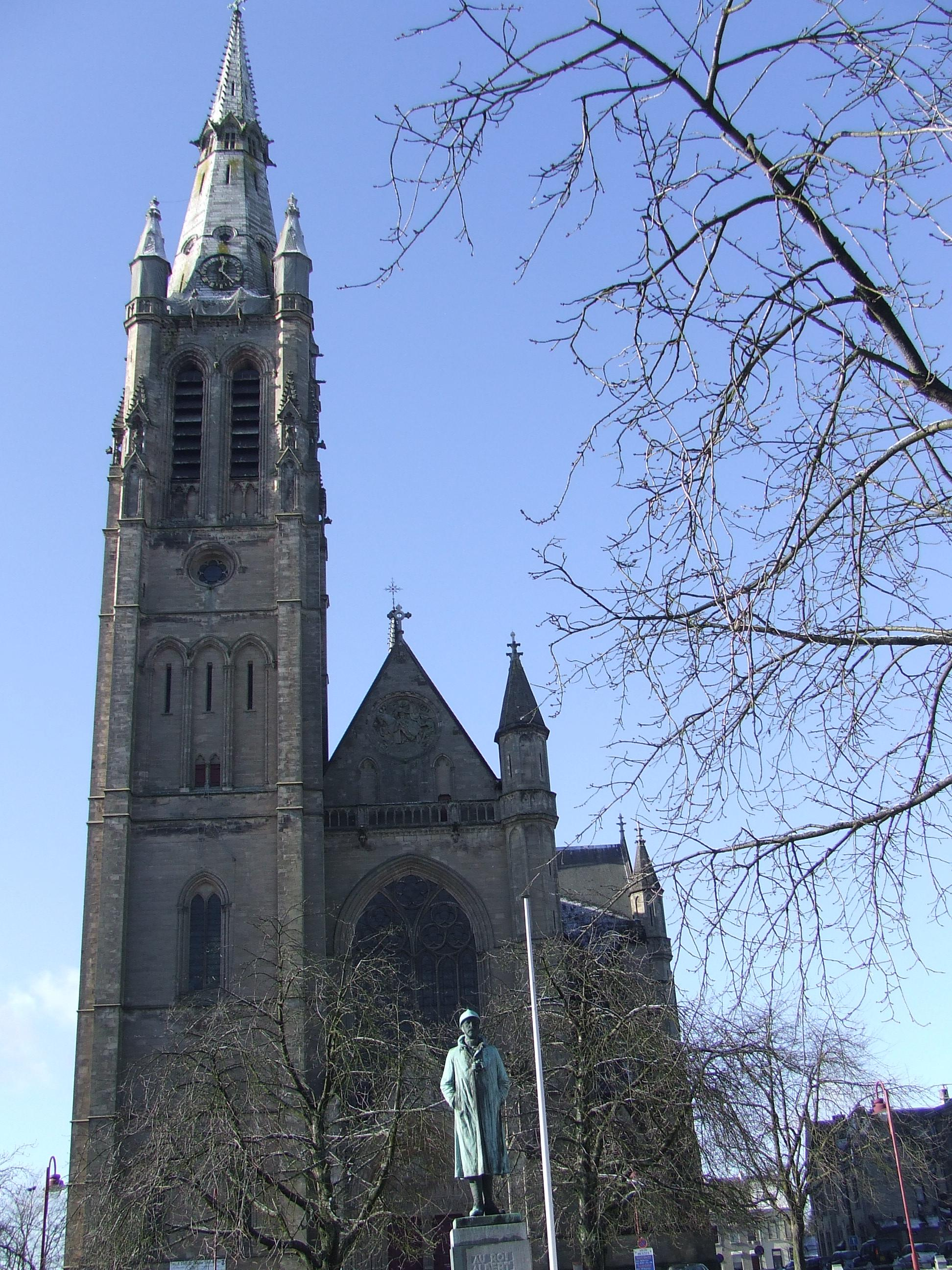 Arlon (Belgium): St Martin's church.